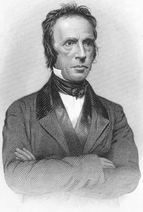 Walter Scott, American Evangelist of the Campbell/Stone Movement on the American Frontier.